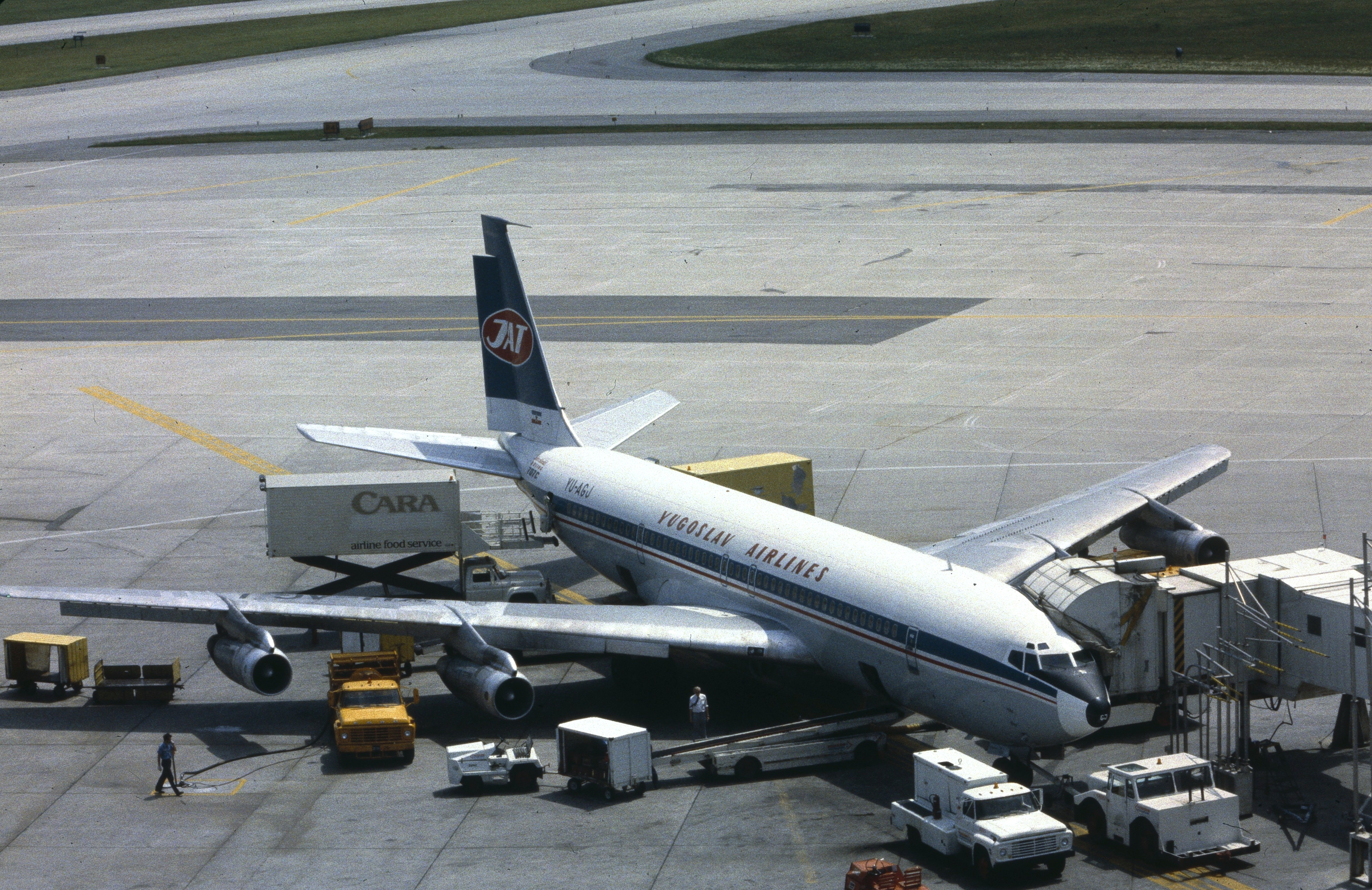 Boeing 707-351C YU-AGJ (cn 19411/540) JAT - Yugoslav Airlines (last noted with DAS Air Cargo as 5X-JET in1999). Toronto - Lester B. Pearson International (Malton) (YYZ / CYYZ) Canada - Ontario, July 14 1984.